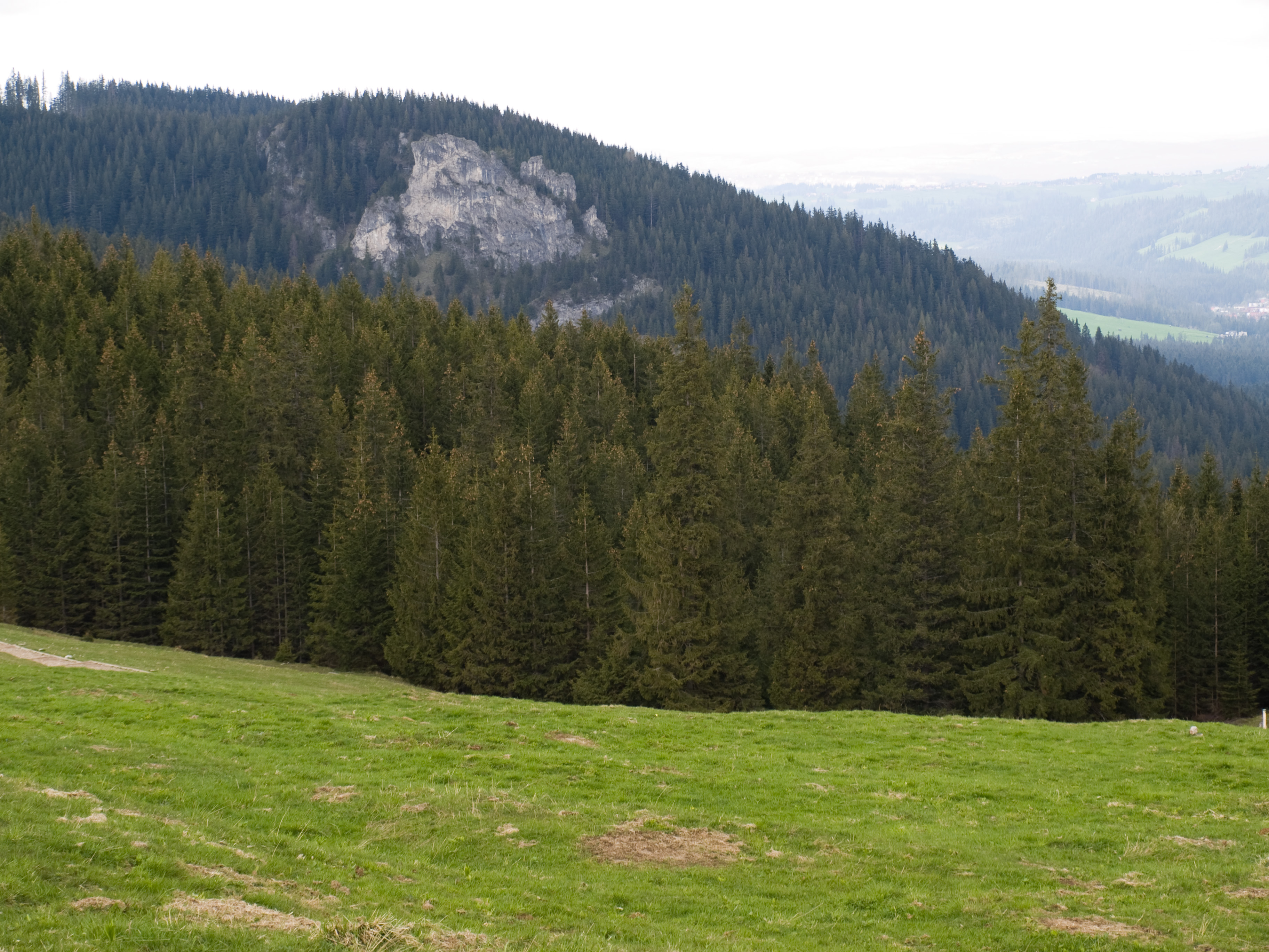 Filipczański Wierch, view from Rusinowa Polana.